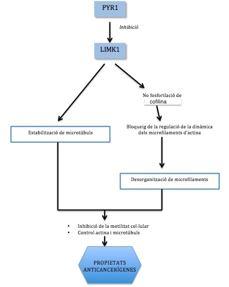 Mecanisme d'acció Pyr1